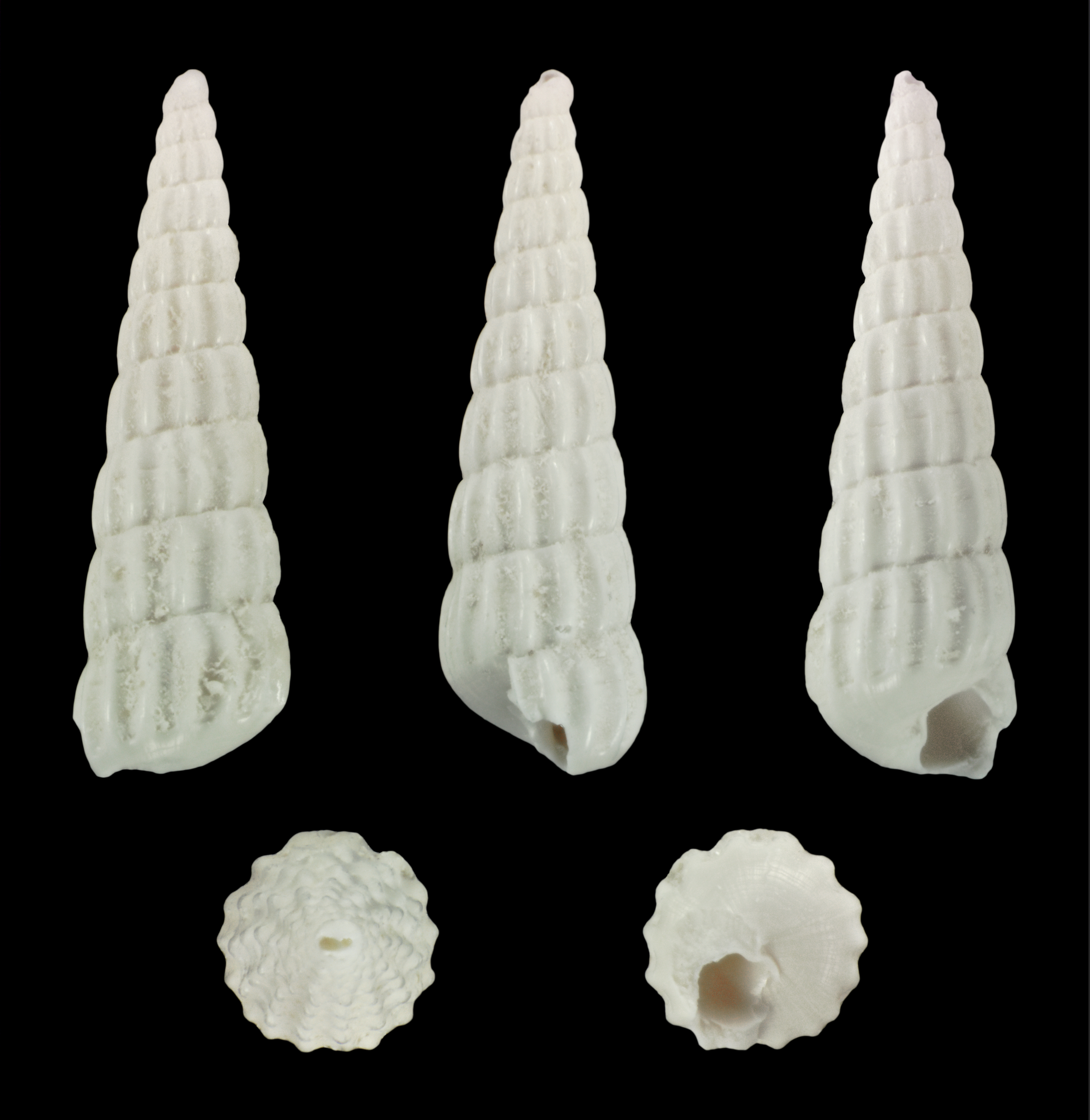 Turbonilla dalli Bush, 1899; length 0.47 cm; Pliocene; Florida, USA; Shell of own collection, therefore not geocoded.